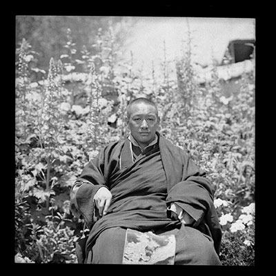 Phalha seated on a chair in a garden with hollyhocks in the background. He was the Dalai Lama's dronyer (mgron gnyer chen po) chamberlain and planned his escape from Tibet in 1959.